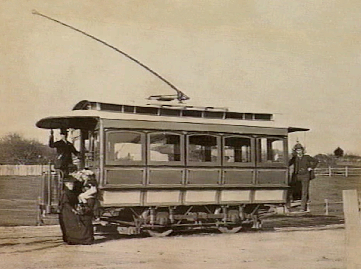 Box Hill and Doncaster Tramway Company Limited tram, date of photo is unknown, but would be between 1889 and 1896 (years of the line/companies operation).